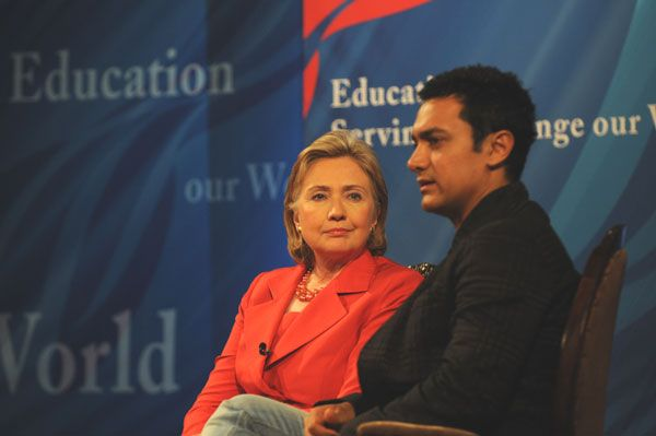 Secretary Clinton and Bollywood Star Aamir Khan discuss education and community service with students at St. Xavier's College, Mumbai.